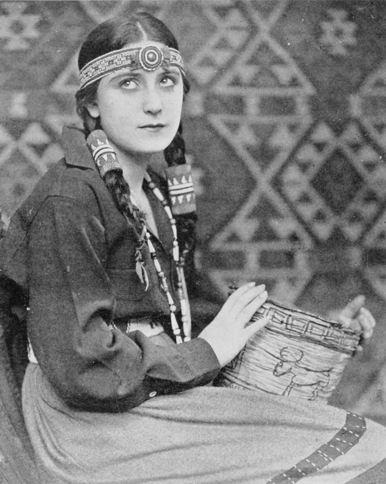 Publicity photo of Virginia Brown Faire from Who's Who on the Screen